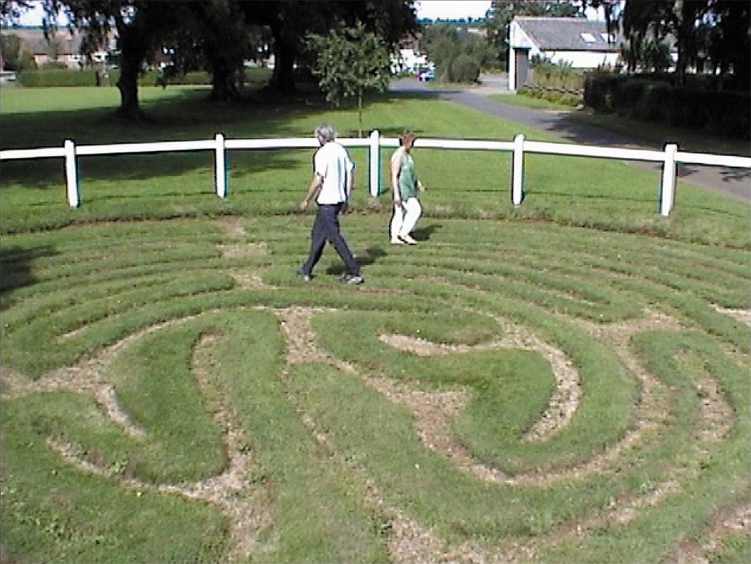 A screen grab (from my own video) of two people walking the Old Maze at Wing, Rutland, England.